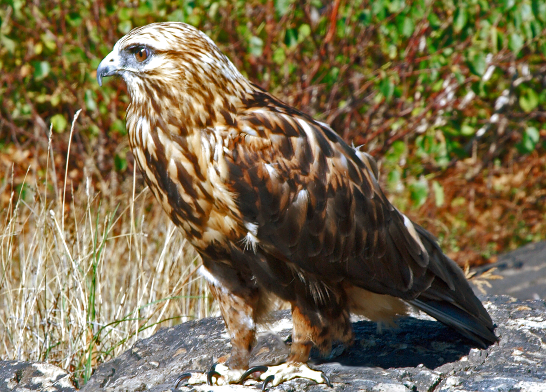 A Rough-legged Hawk (Buteo lagopus), Niagara region, Ontario.ROUGH-LEGGED HAWK.